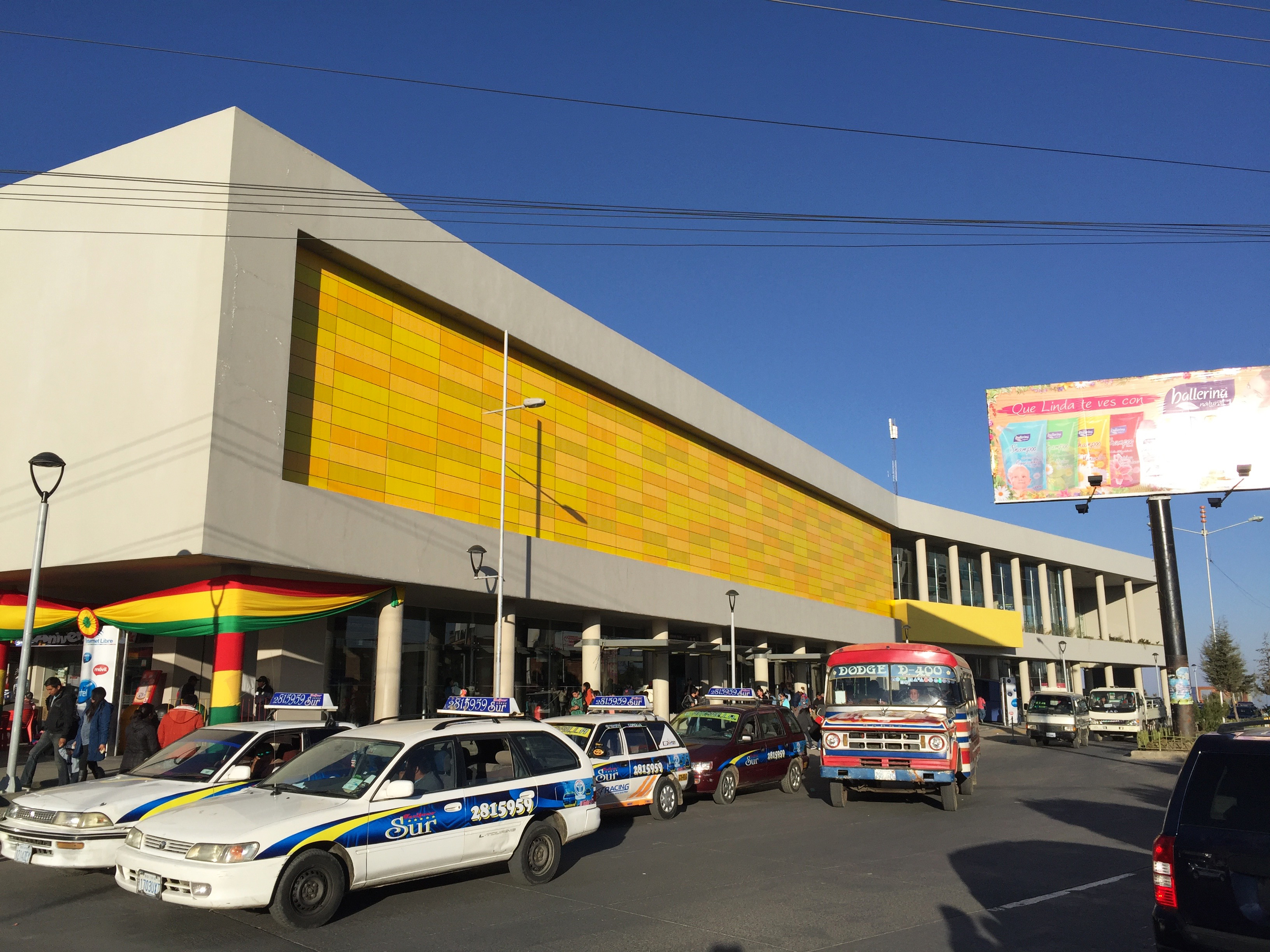 Ciudad Satélite/Qhana Pata cable car station in El Alto, Bolivia.